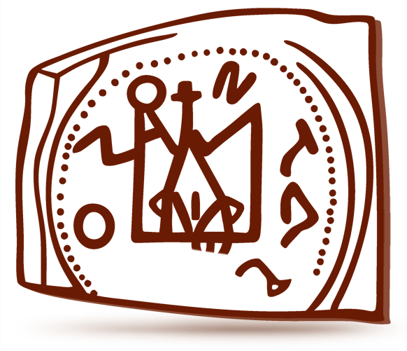 Izyaslav (Russian: Изяслав, Belarusian: Ізяслаў) was the son of Vladimir I of Kiev and Rogneda of Polotsk.